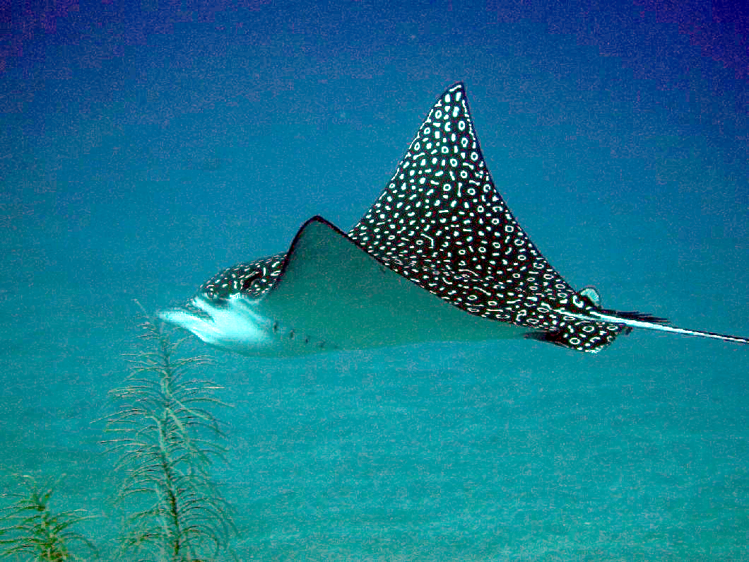 Great Eagle Ray, watch for the spots (binaries)... Statia 2005-2006 - de Bosset Jean